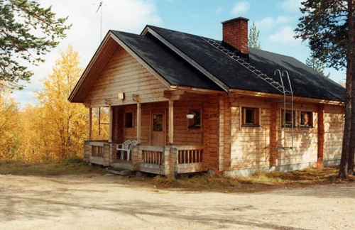 Cottage